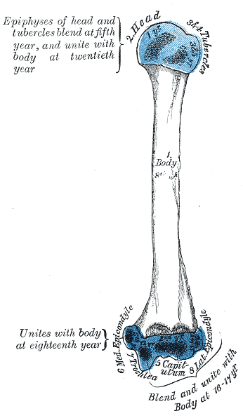 Plan of the development of the humerus, by seven centres.